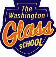 Logo of Washington Glass School, located in Mt Rainier, MD.